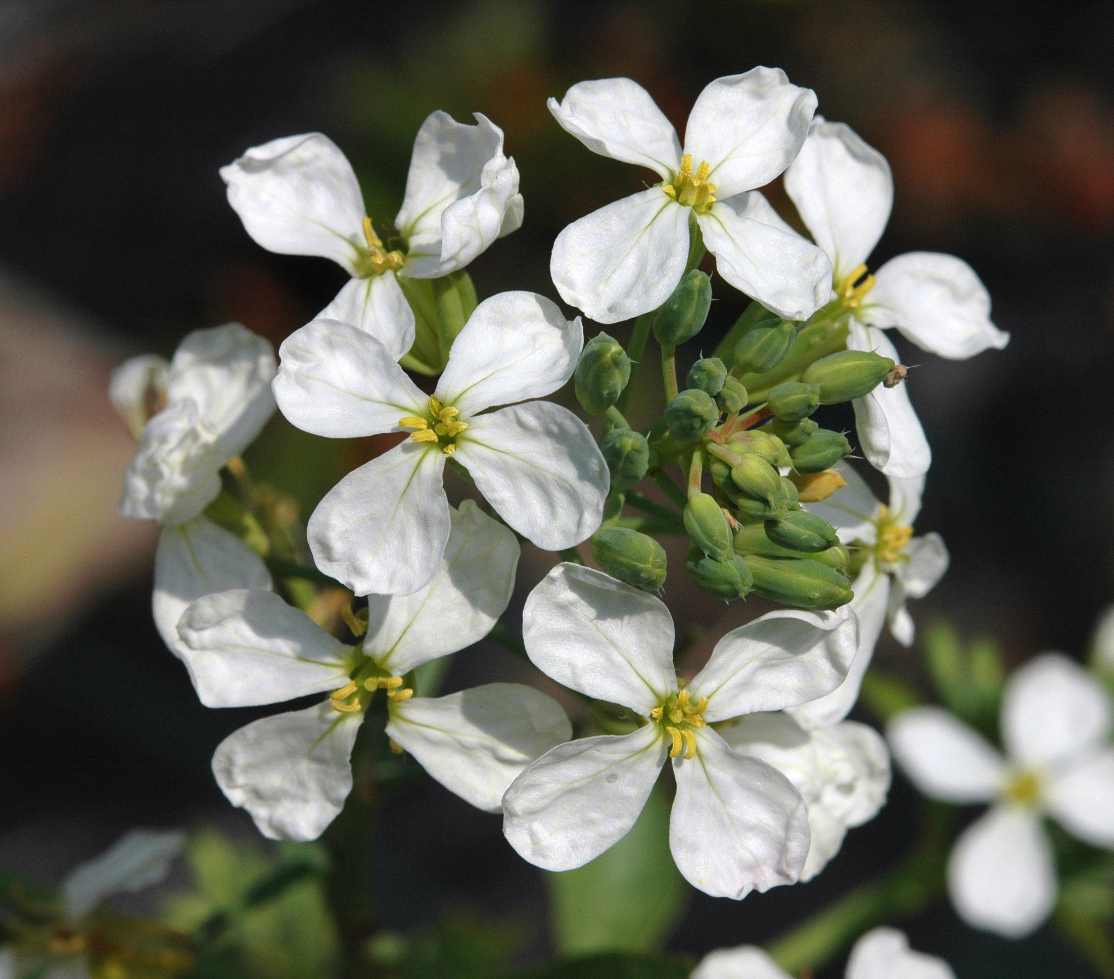 Raphanus sativus flowers